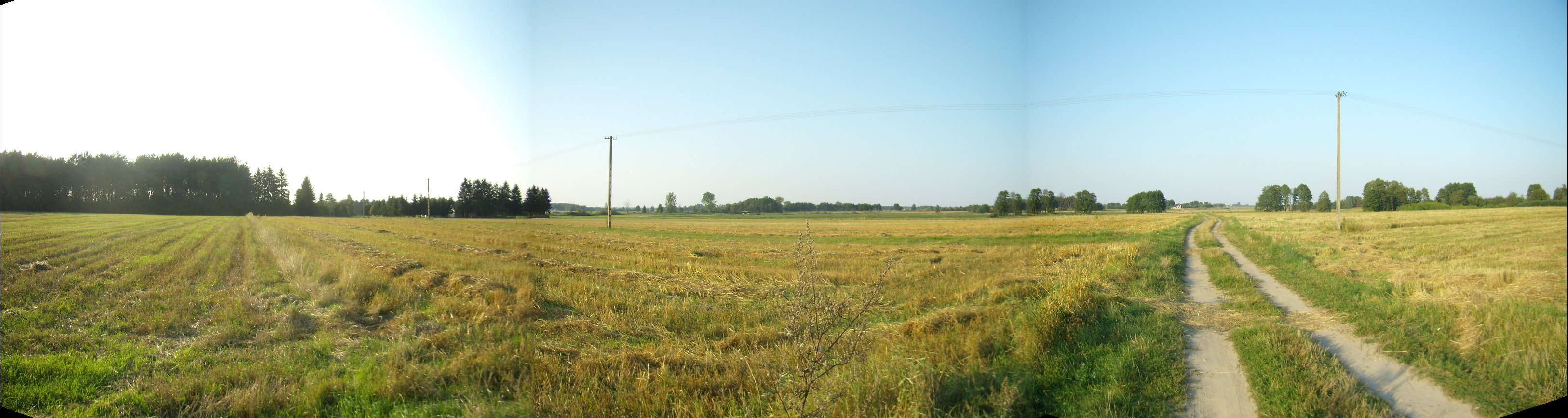 Głuch, Studzianka - battlefield of Łomazy 15 september 1769 panorama (2009)